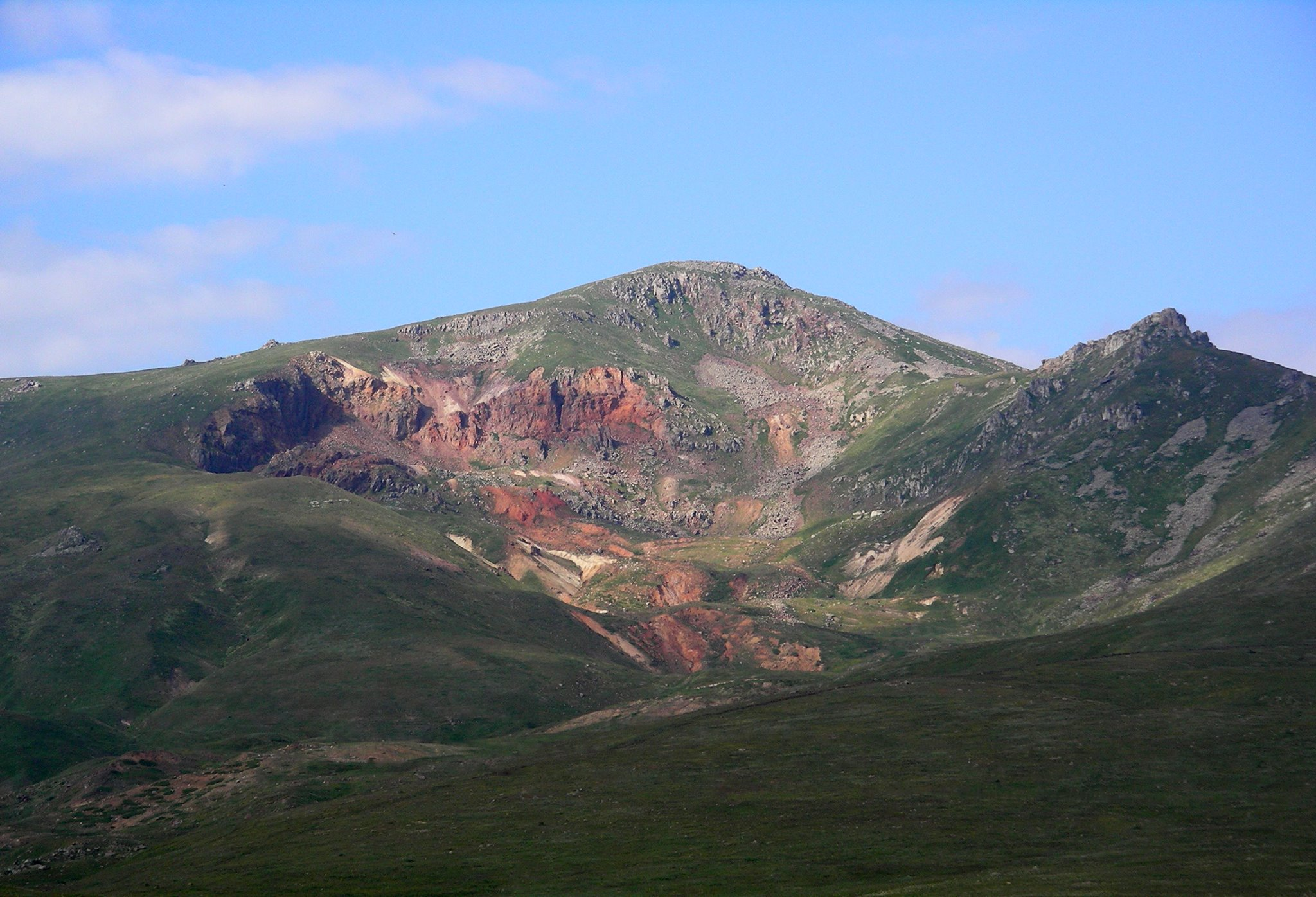 Mountain Amulsar, Armenia